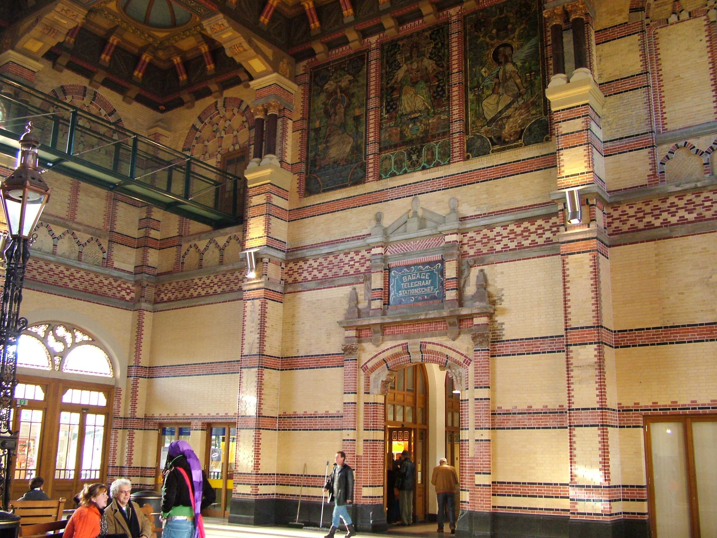 Station Groningen